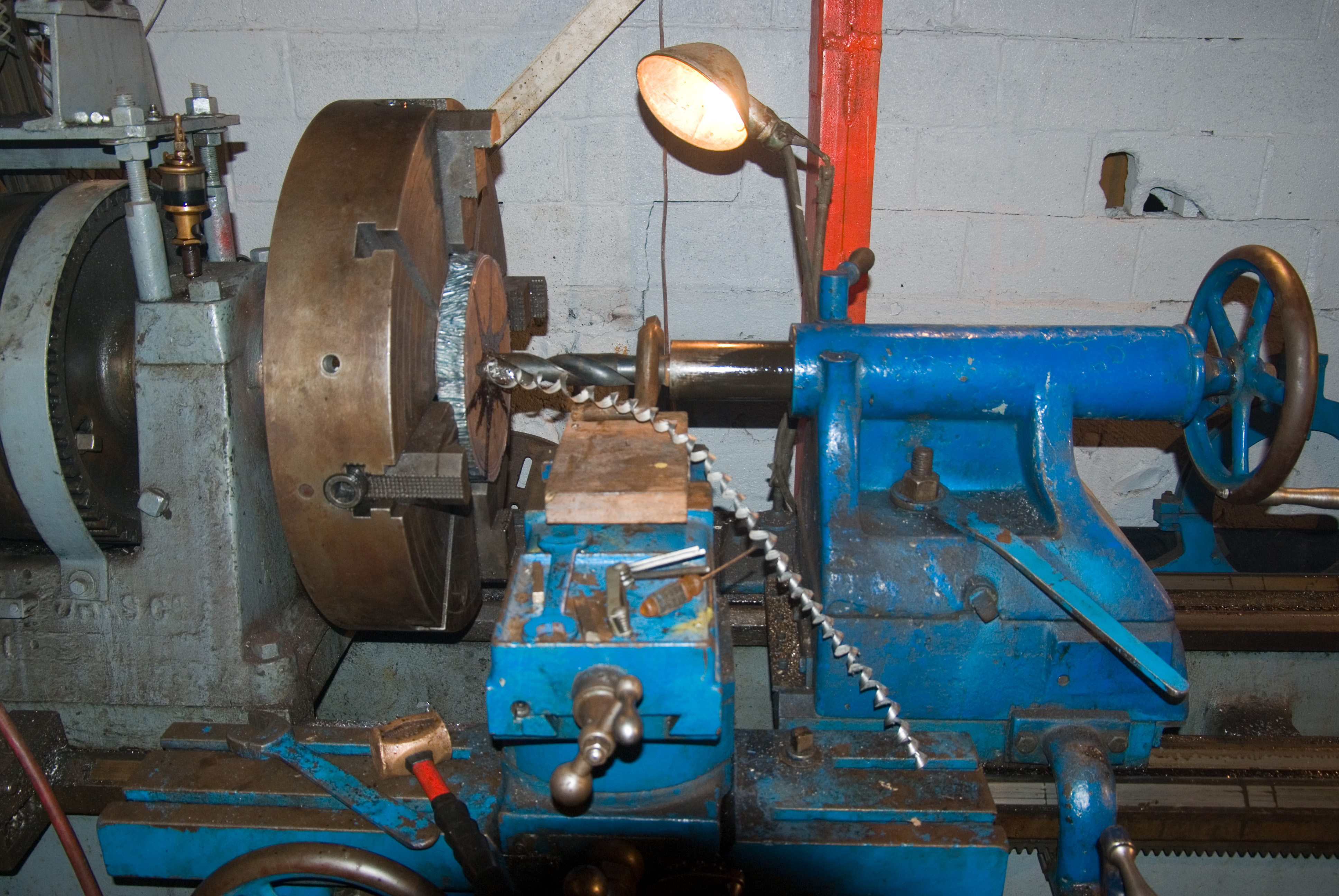 Engine Lathe tailstock used for drilling